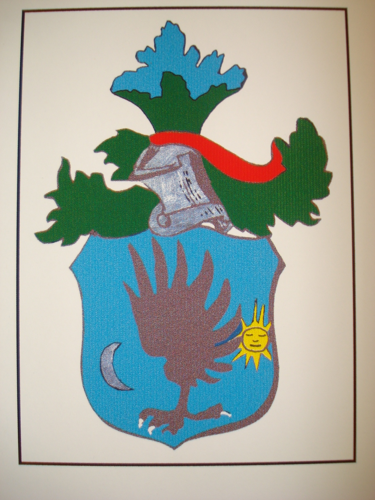 Coat of arms of the Croato-Hungarian Kaniški (Hungarian: Kanizsai) noble family